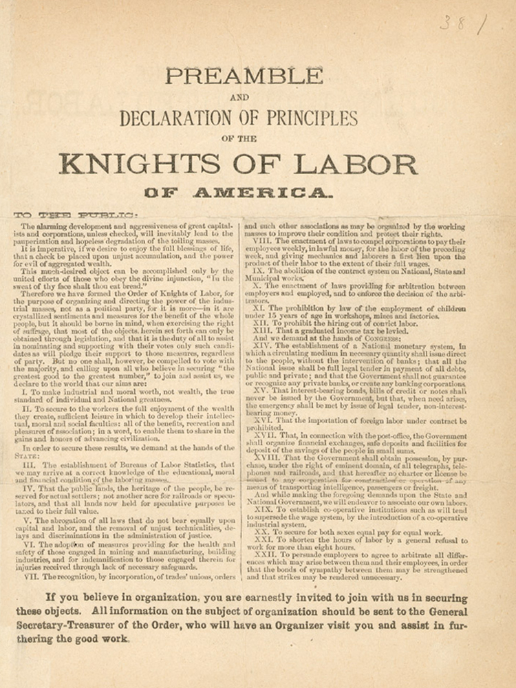 Preamble and Declaration of Principles of the Knights of Labor of America.